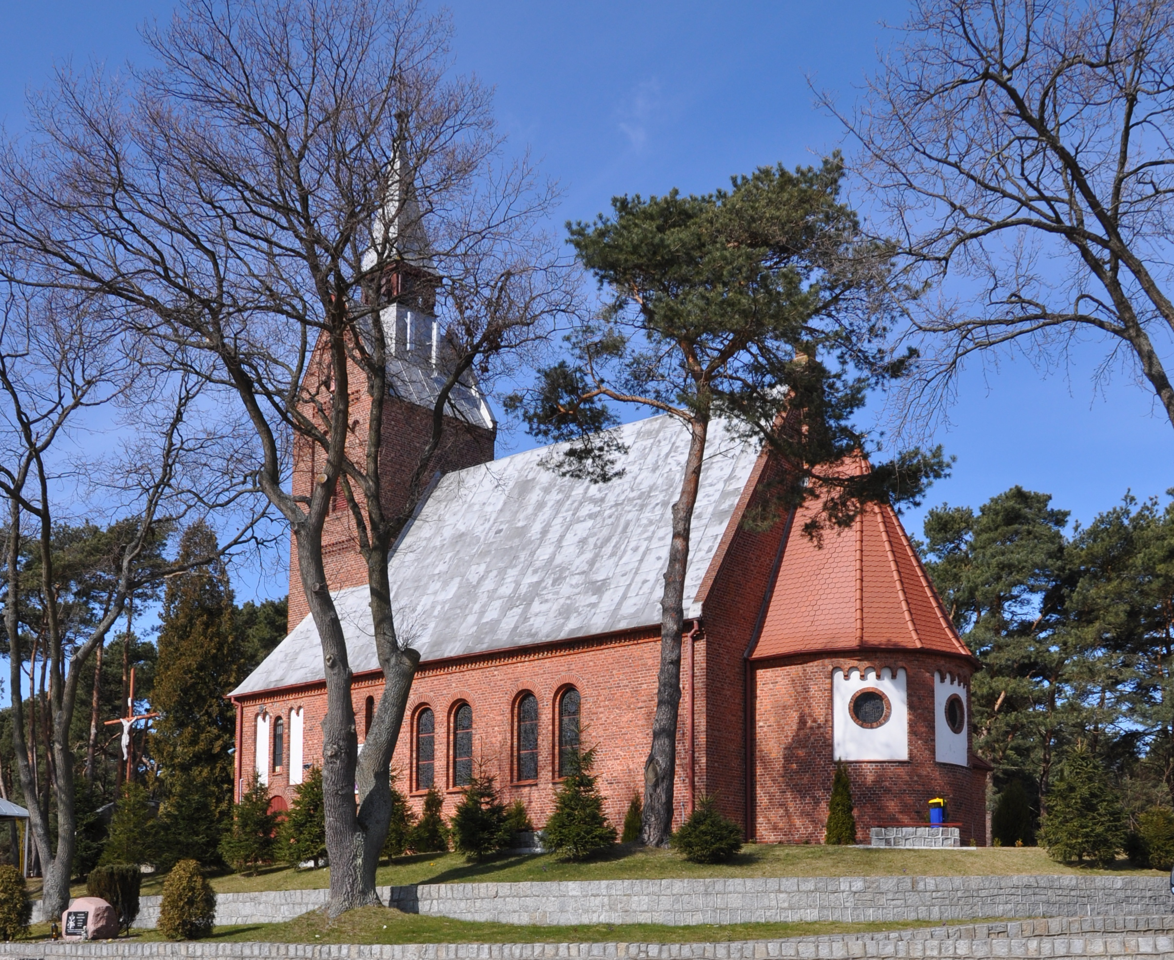 St. Peter and Paul Roman Catholic Church in Mrzeżyno